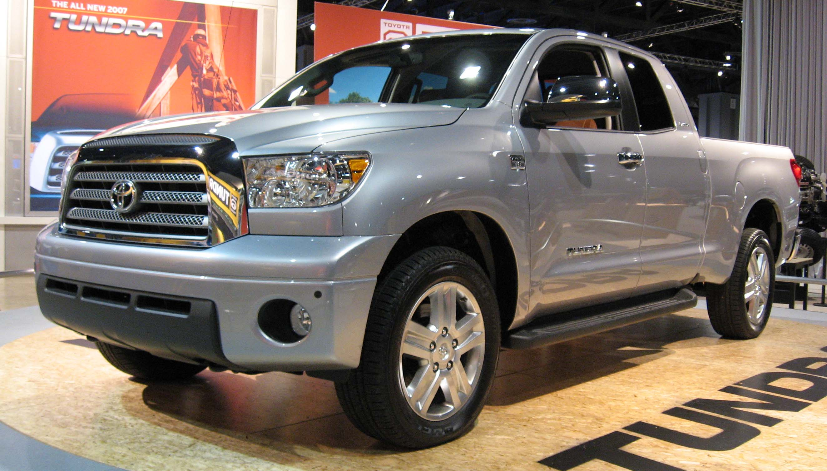 2007 Toyota Tundra photographed at the Washington Auto Show.